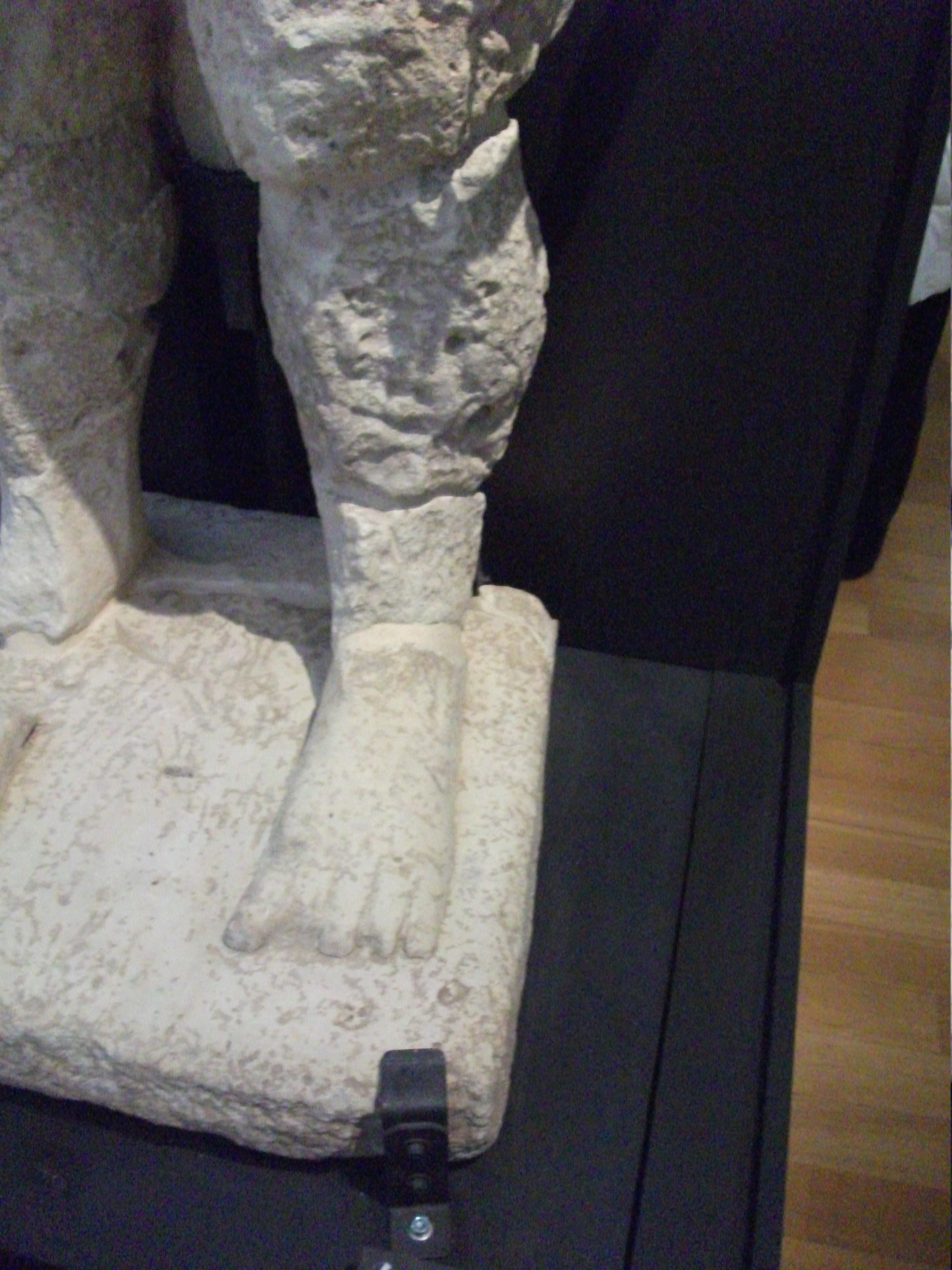 Sculpture, Giant of Monte Prama, boxer, Sardinia, Italy, Nuragic civilization,archaeology, bronze age, sea peoples,prehistory